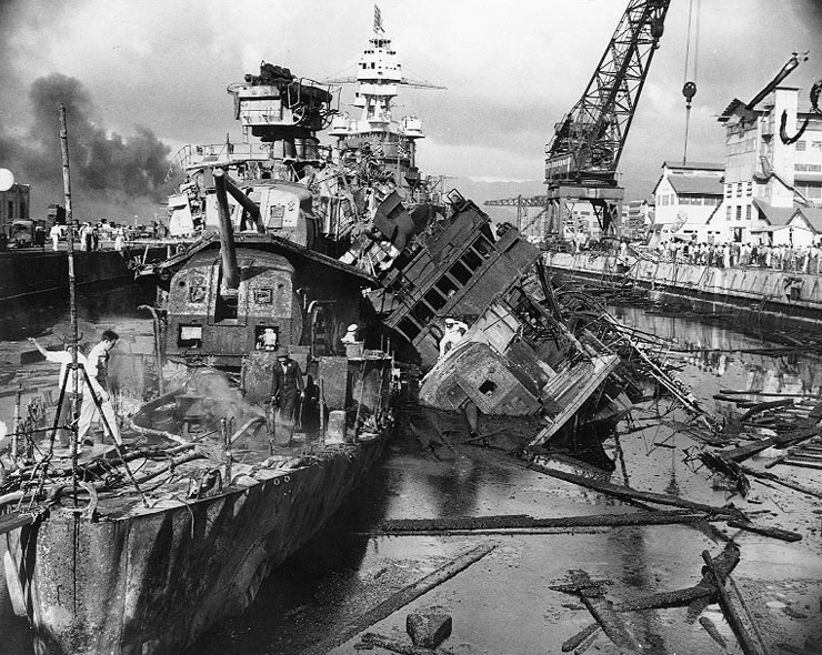 The U.S. Navy destroyers USS Cassin (DD-372) (capsized, right) and USS Downes (DD-375) (left) in Drydock No. 1 at the Pearl Harbor Navy Yard on 7 December 1941, immediatly following the Japanese attack. Both ships had been severely damaged by bomb hits and the resulting fires. In the background, also in Drydock No. 1, is USS Pennsylvania (BB-38), which had received relatively light damage in the raid. Note her CXAM-1 radar.